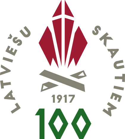 Logo of Latvian scouting 100 anniversary